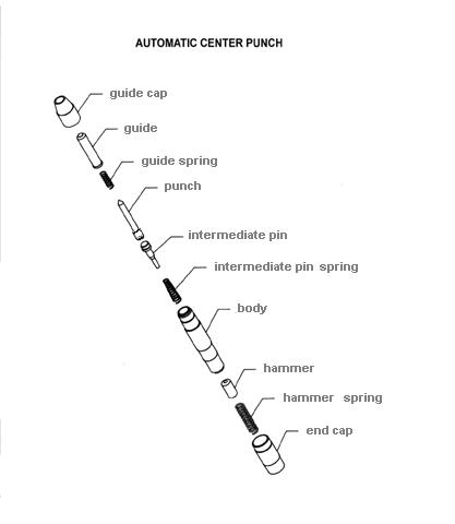 automatic center punch diagram